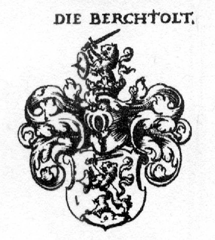 Coat of Arms of Berchtold